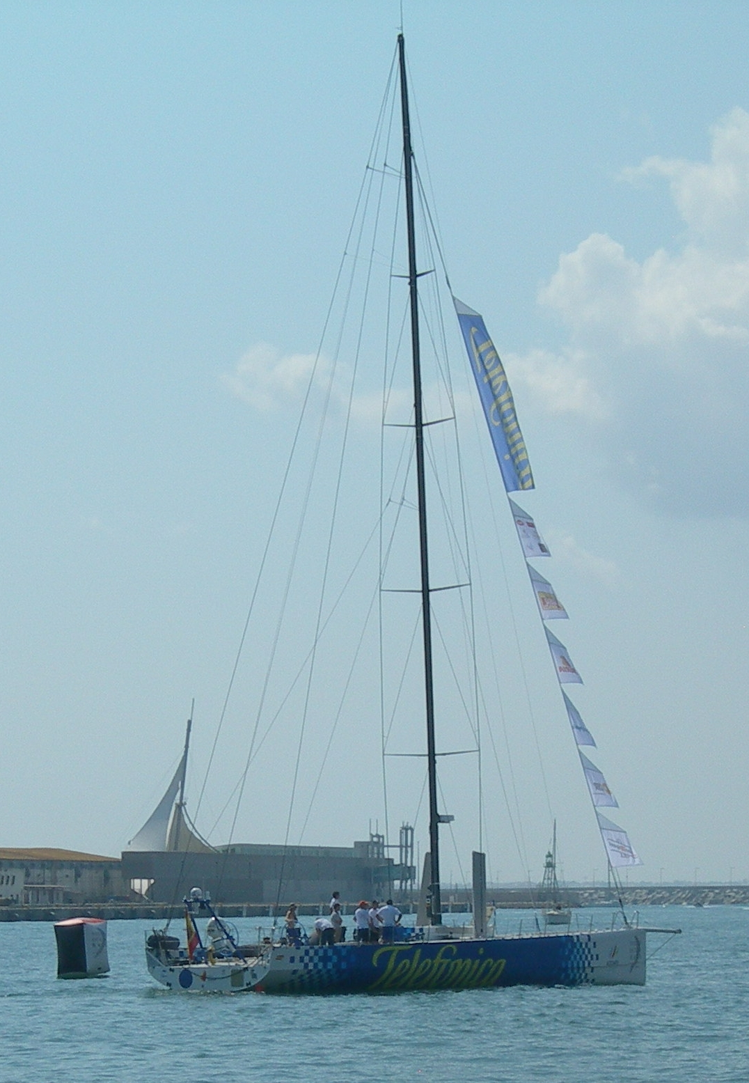 Telefonica Blue in Alicante, Spain at the start of the 2008-09 Volvo Ocean Race.